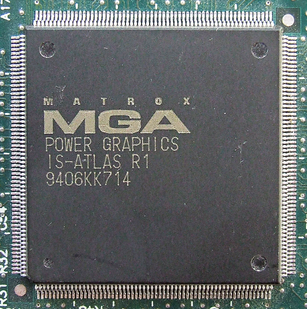 Matrox IS-ATLAS graphic chip of a Matrox Ultima Plus PCI video card.